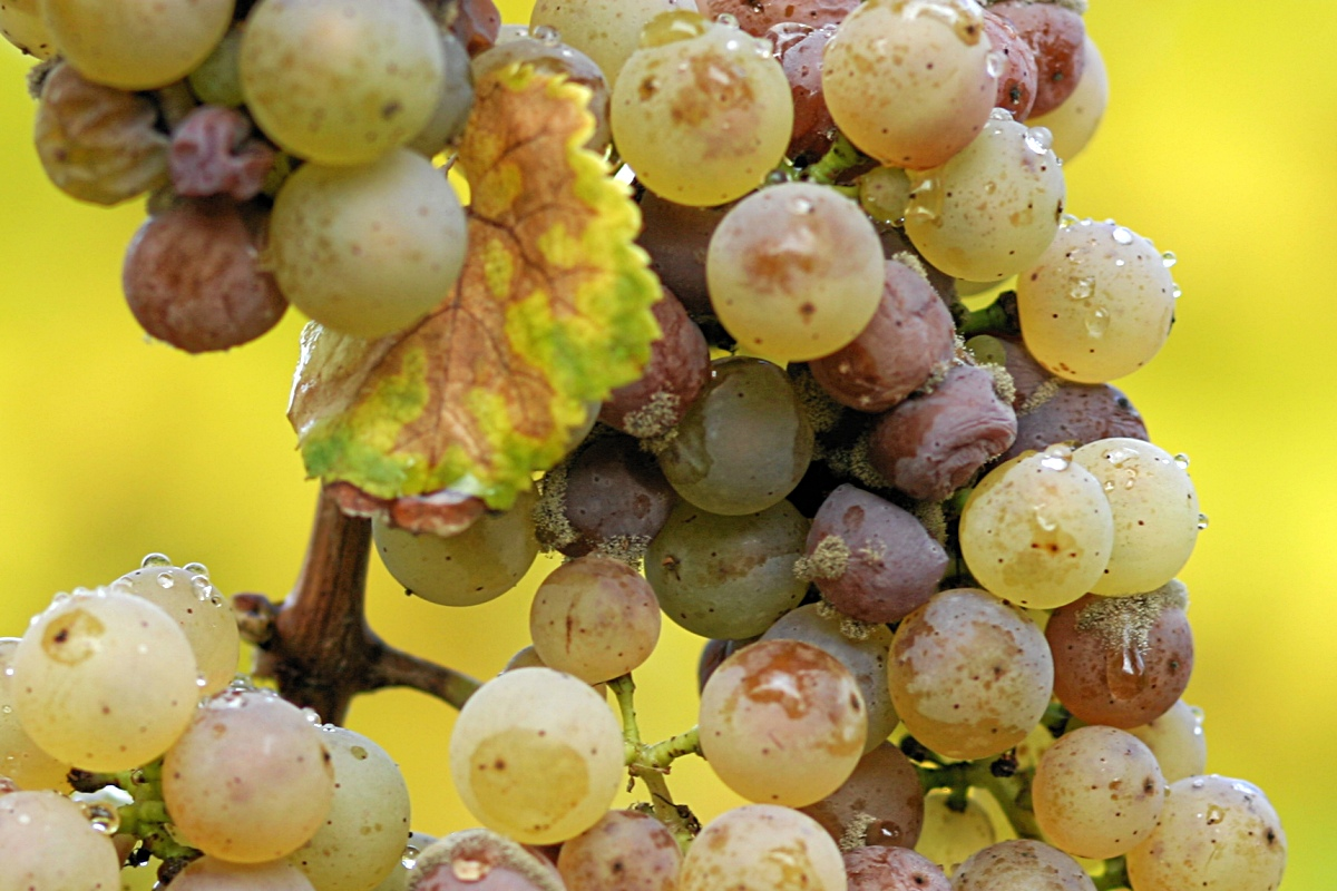 Botrytis cinerea on Riesling grapes, noble rot. Rheingau, Germany, October 2005